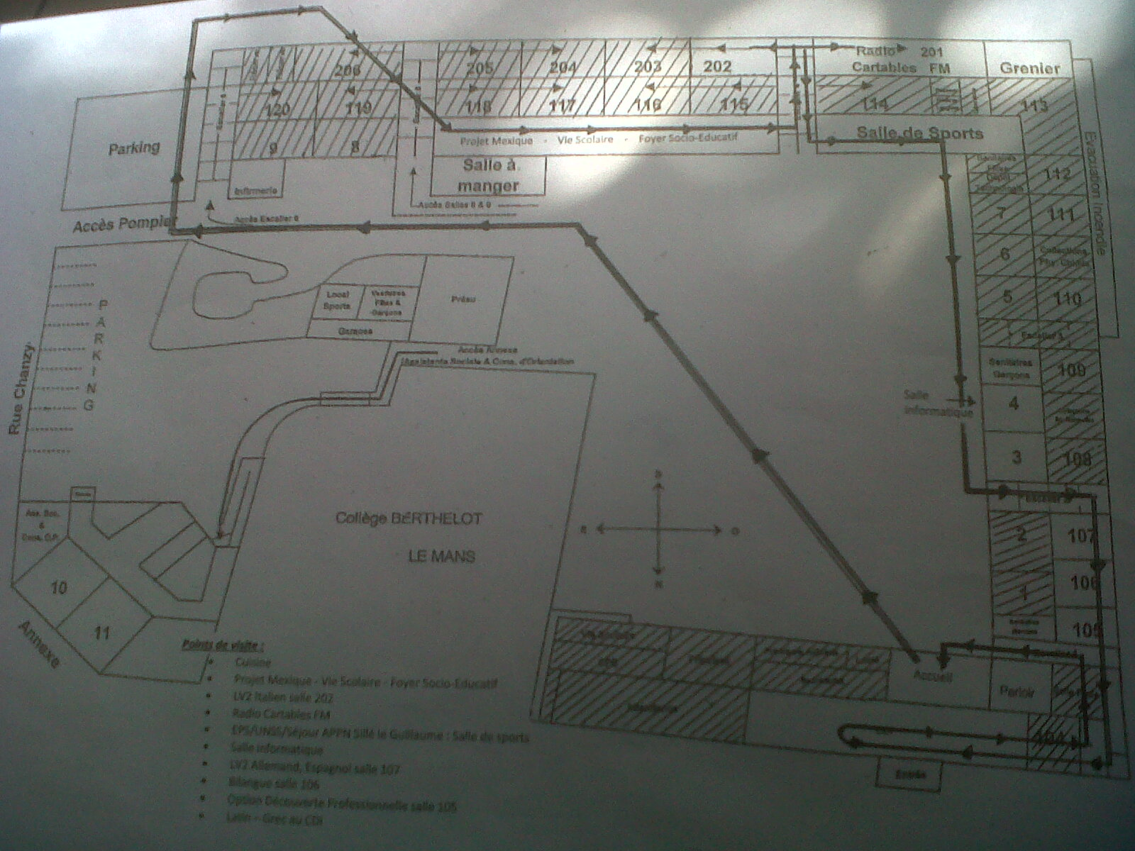 Plan de Berthelot